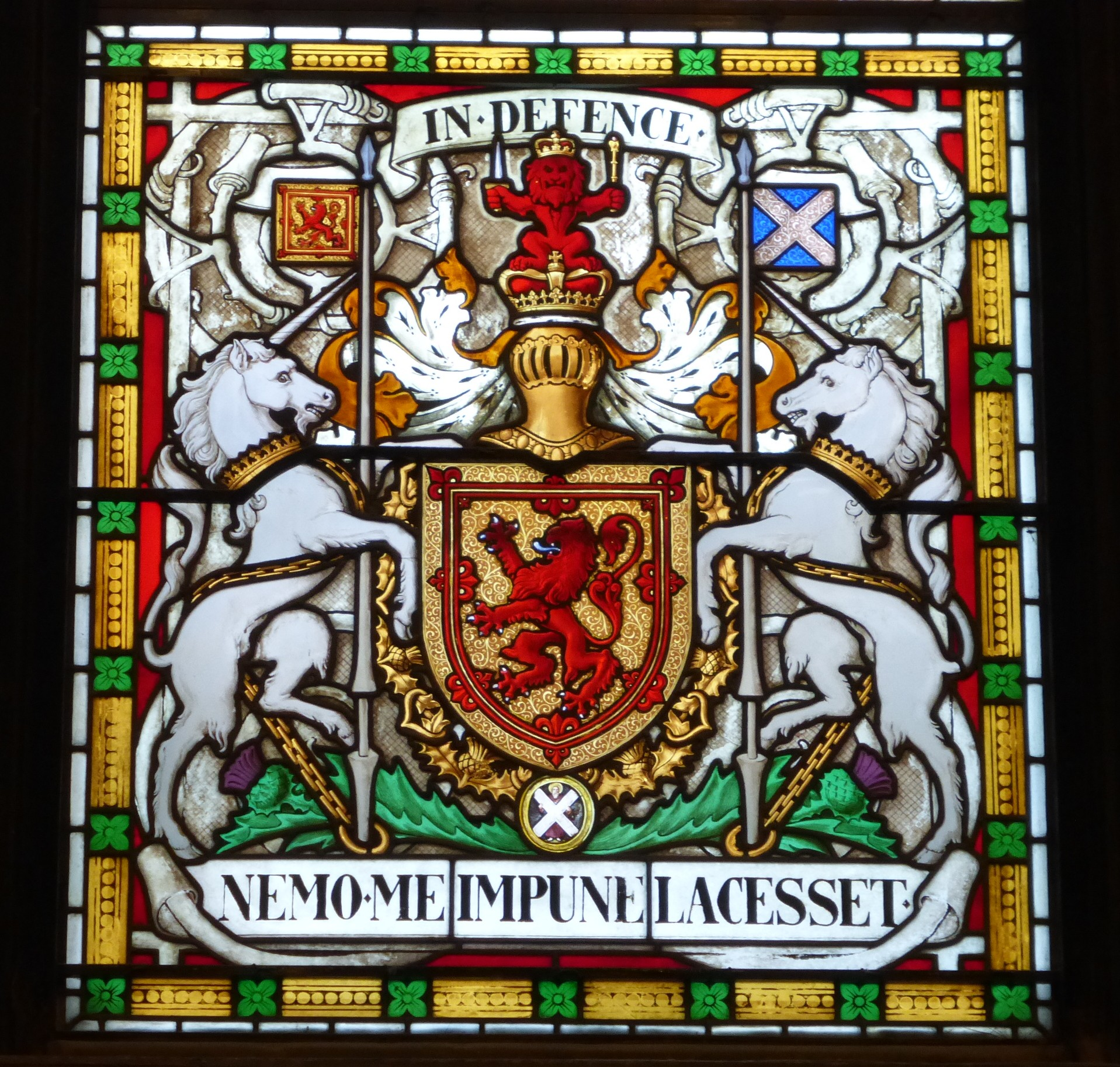 Royal Arms of Scotland from the Great Window in Parliament Hall, Edinburgh